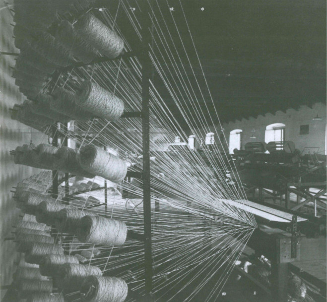 Looms in the MITA Factory, via Montemoro, Genoa, 1930s